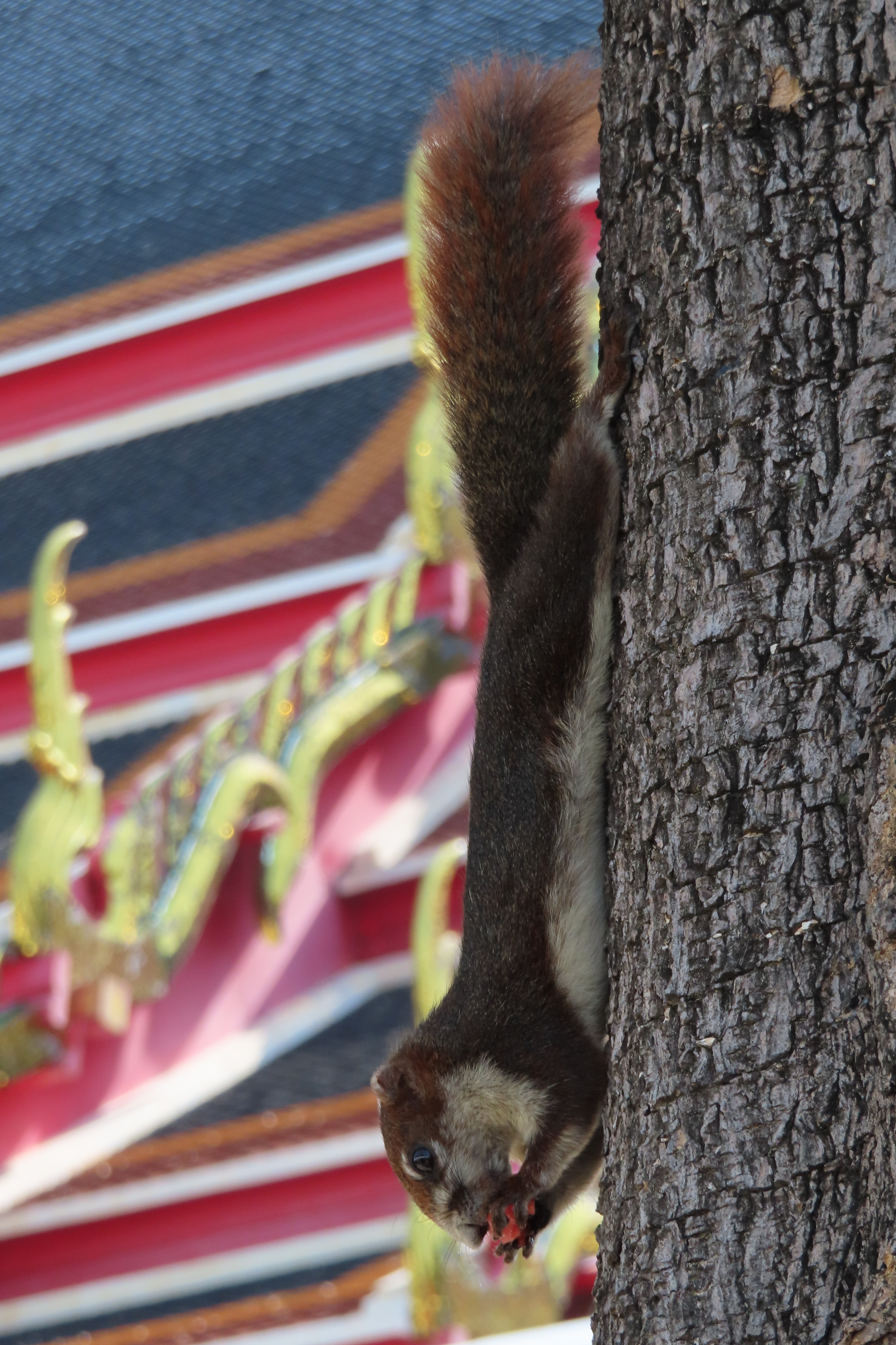 Finlayson's squirrel (Callosciurus finlaysonii) eating watermelon. Photo taken at Wat Pho, Phra Nakhon, Bangkok, Thailand.